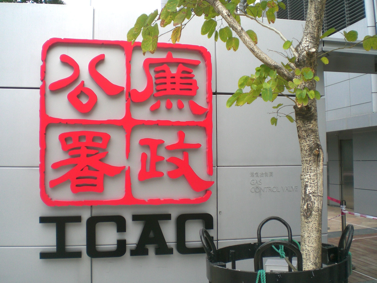 北角zh:廉政公署 (香港)2009年開放日